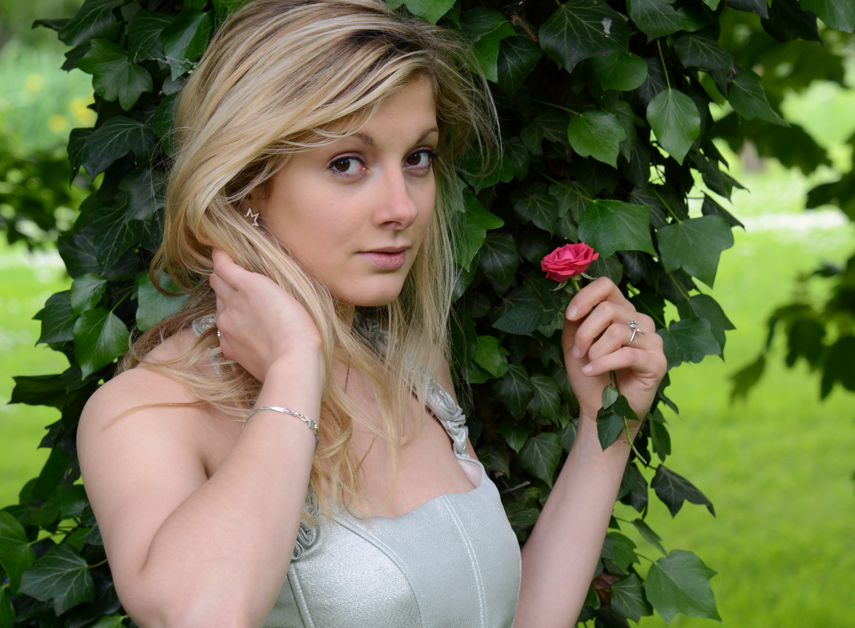 Romantic portraiture